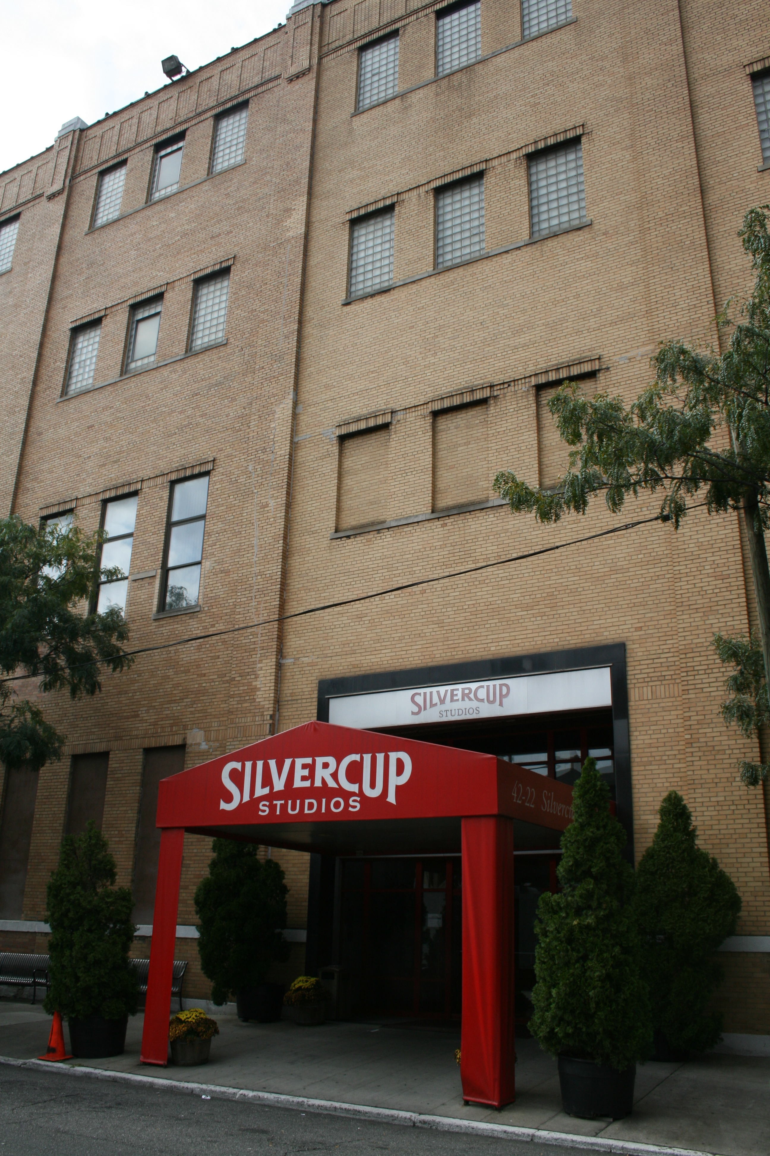 This photo is of Wikis Take Manhattan goal code L16, Silvercup Studios.